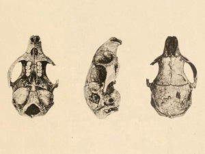 Torre's Cave Rat (Boromys torrei); skull Photo from 'Bulletin of the Museum of Comparative Zoology at Harvard College. Vol 62. 1918–1919. Cambridge, Mass., USA'